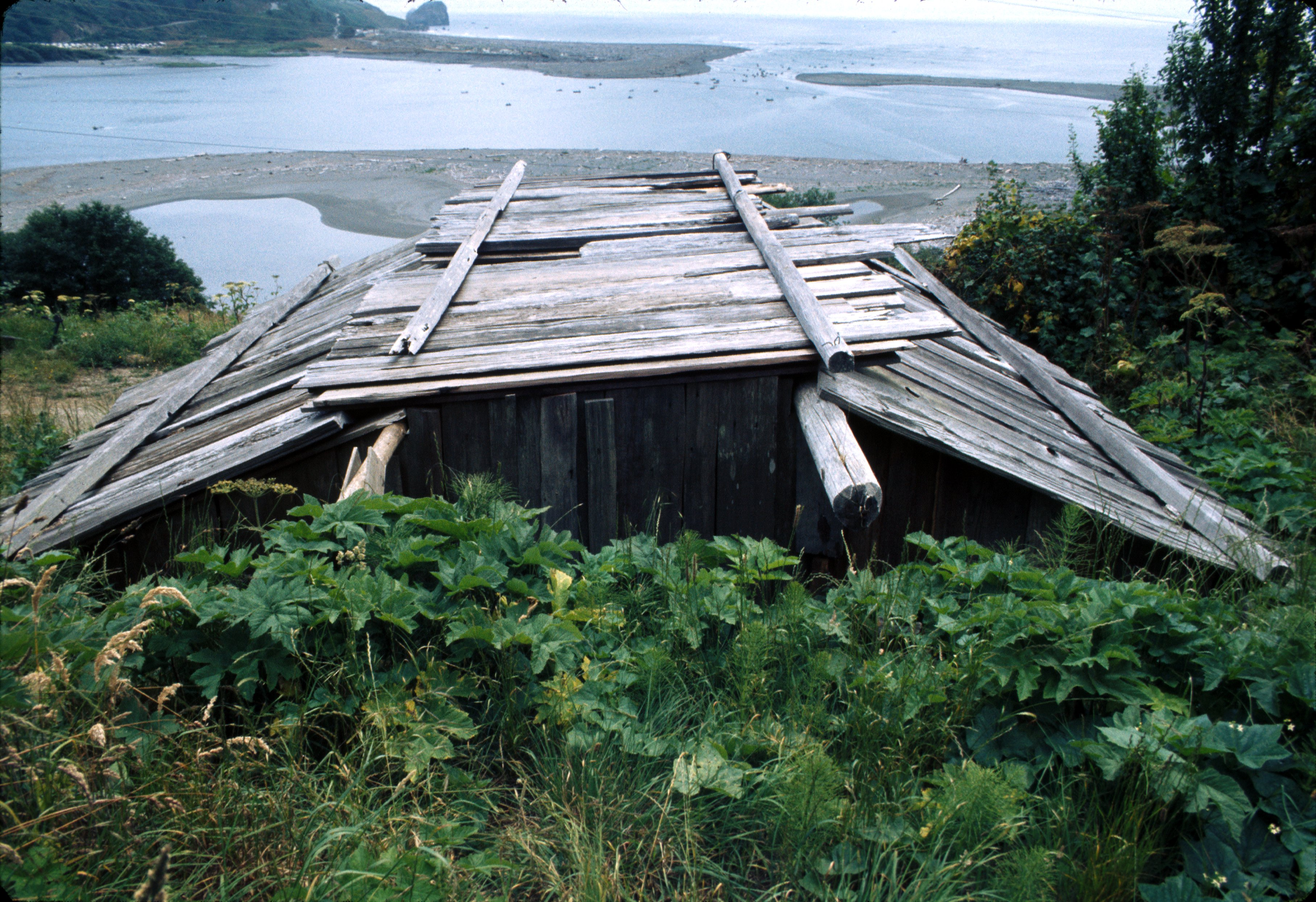 reconstructed plankhouse typical of the yurok nation in todays California in Redwood National Park